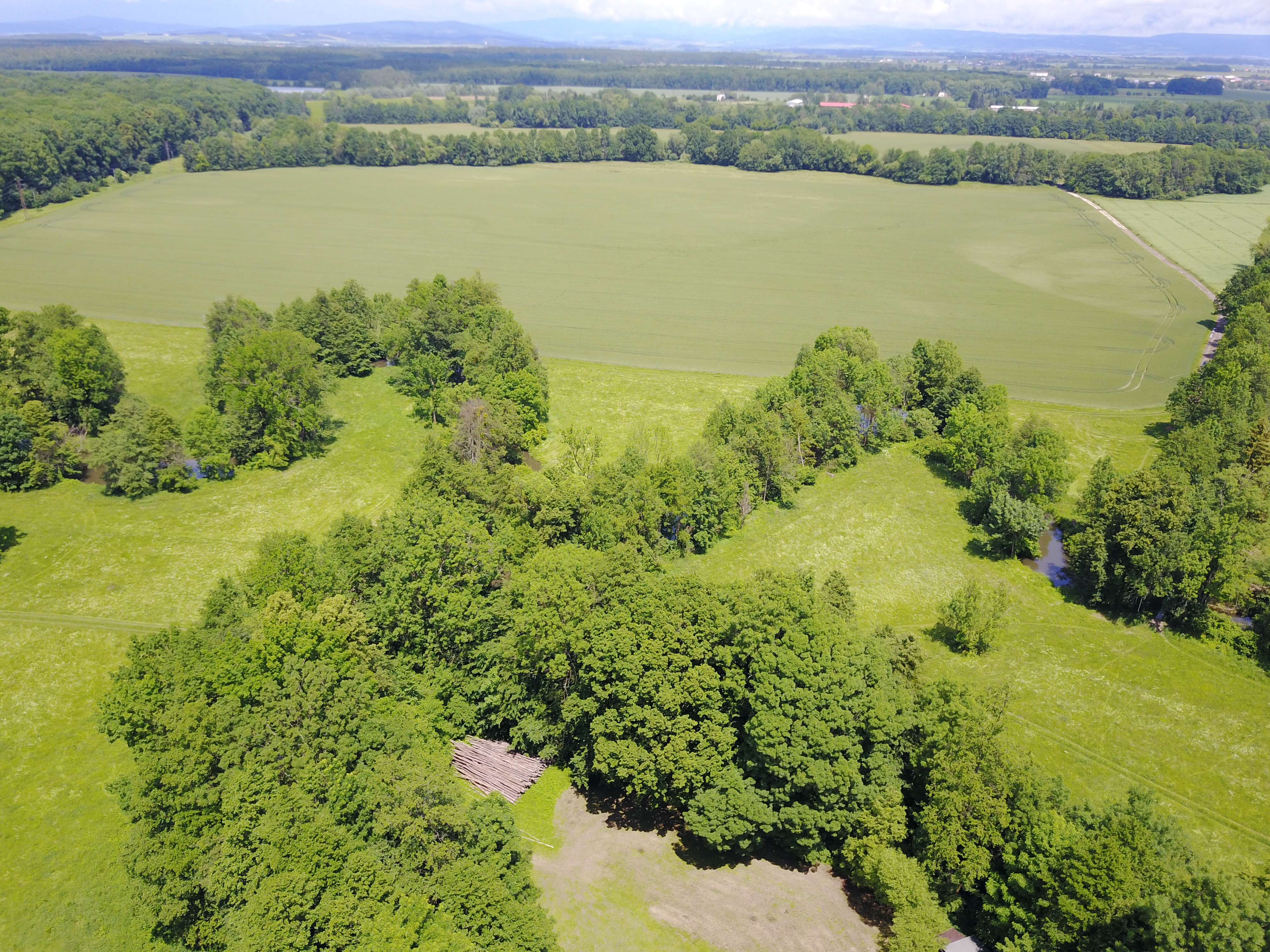 Morava distributaries Malá voda and Mlýnský potok in the foreground and Past in the background.